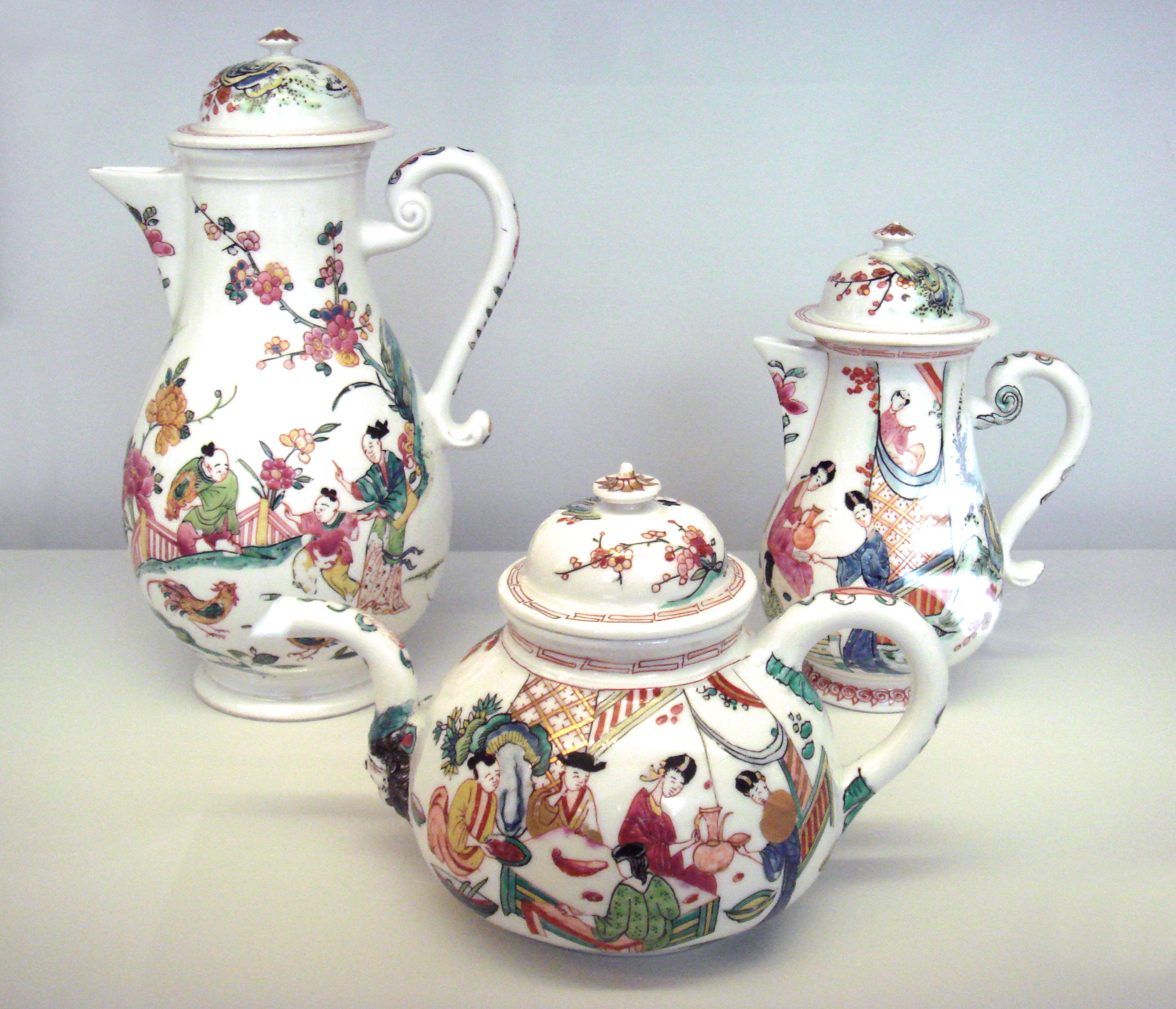 Meissen teapots circa 1720 decorated in the Netherlands circa 1735.